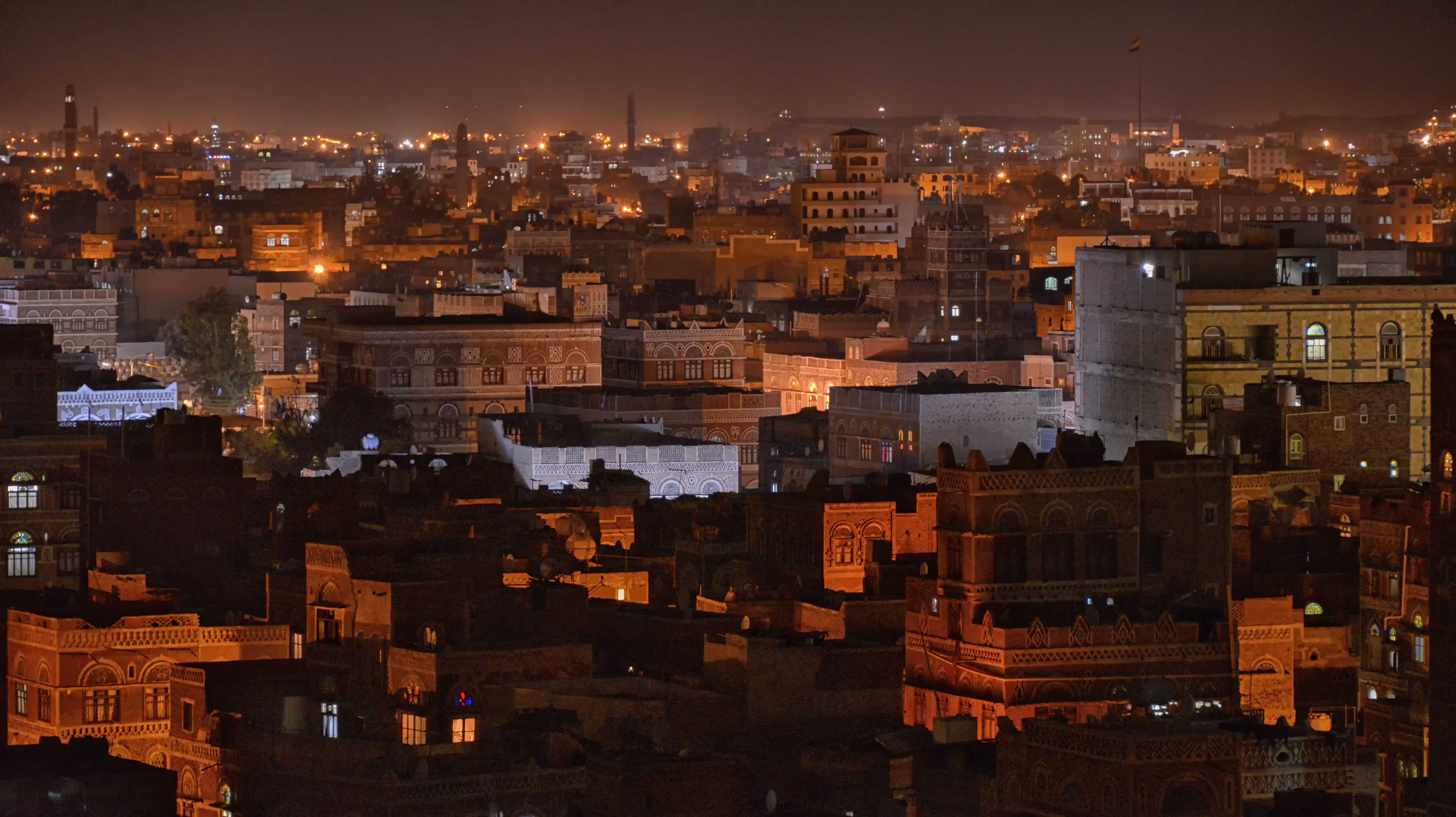 Sana'a Night, Yemen